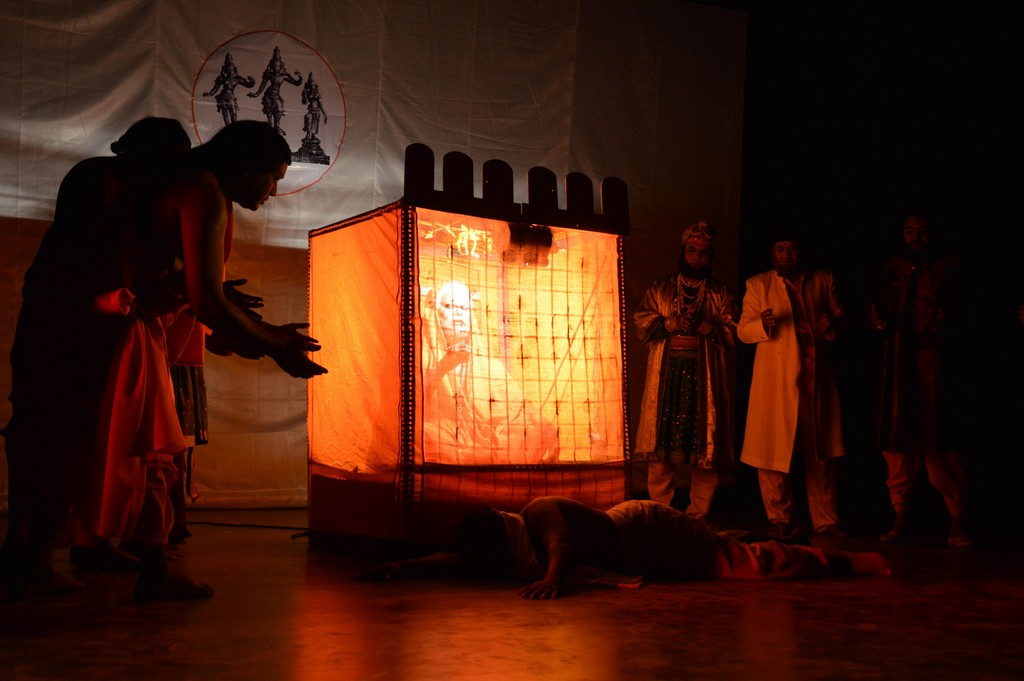 climax seen of Srigururaghavendra charitam At 2013 Nandi Natakotsawam at Rajamundry